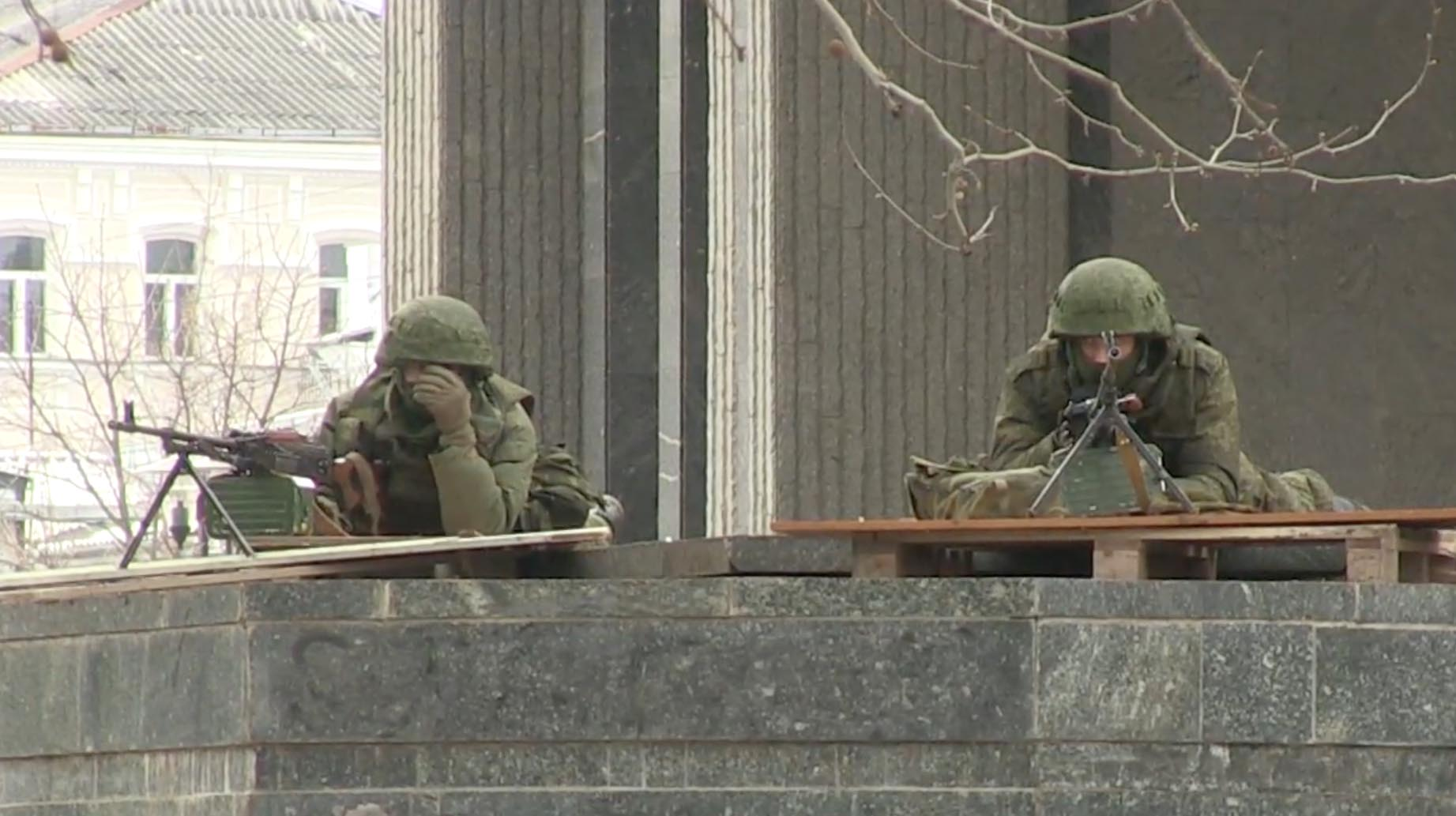 Armed, uniformed men outside parliament in Simferopol, as unidentified soldiers gain control of more key positions.